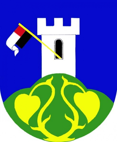 Municipal coat of arms of Kamýk village, Litoměřice District, Czech Republic.